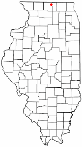 Category:Illinois city locator maps